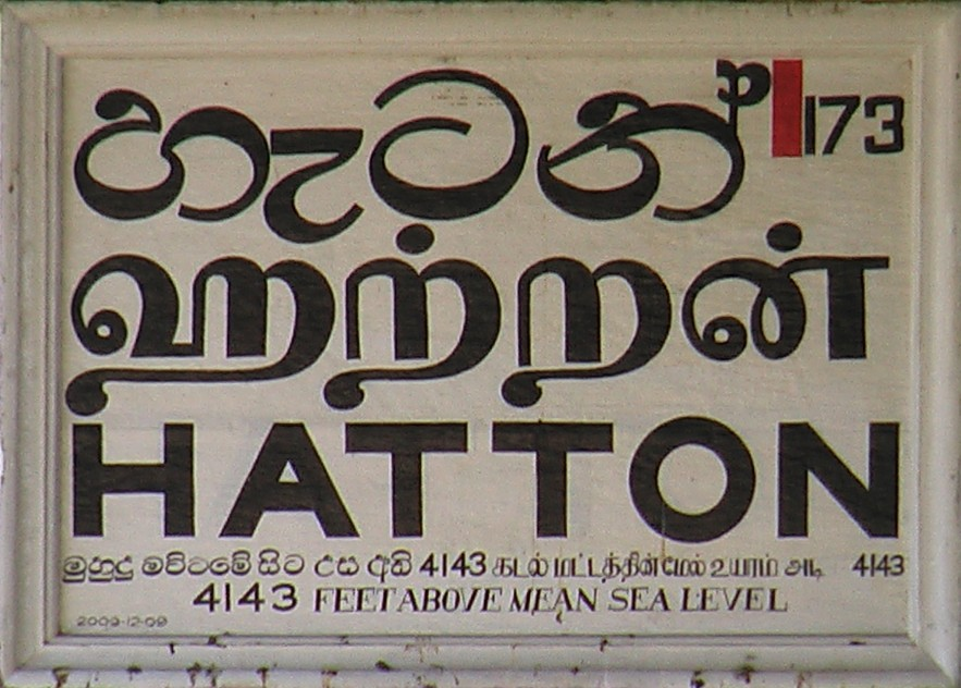 Sign at the railway station in Hatton, Sri Lanka, in English, Sinhala, and Tamil.